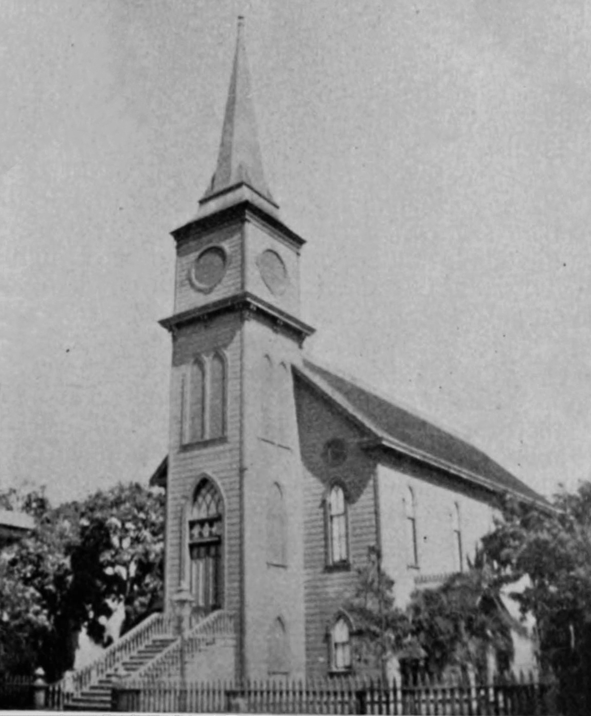 Photo of the Chinese Christian Church in Honolulu. Also known as the "Fort Street Church".